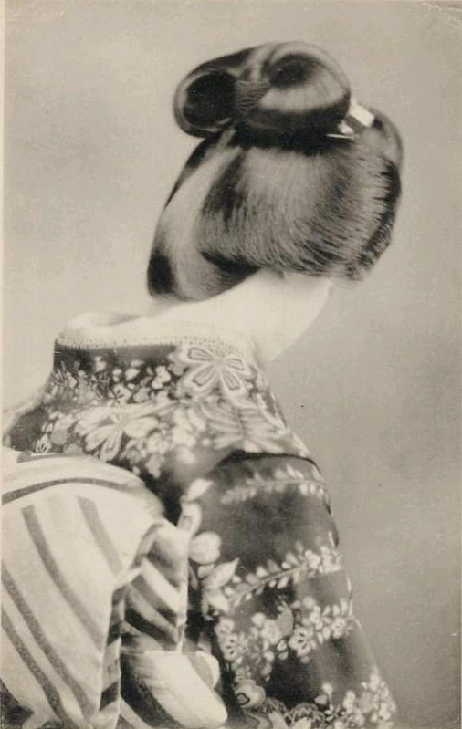 This hairstyle is known as ichogaeshi